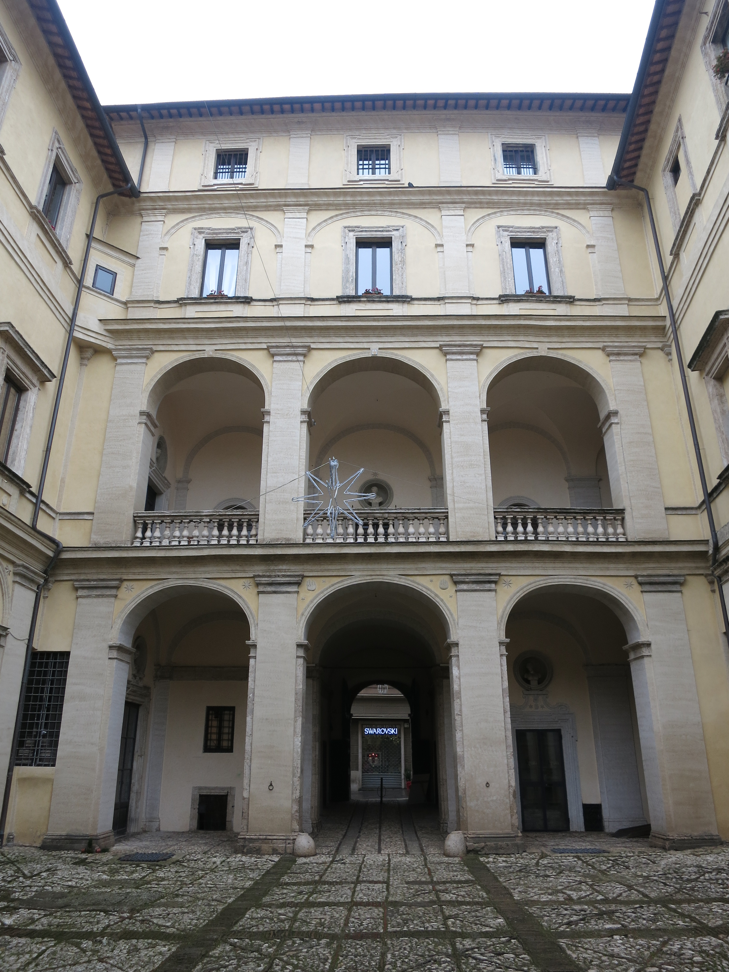 Vecchiarelli Palace - Rieti, Lazio, Italy